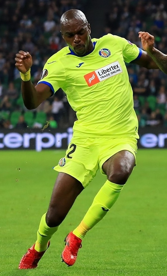 Allan Nyom with Getafe CF in an Europa League game against FC Krasnodar.